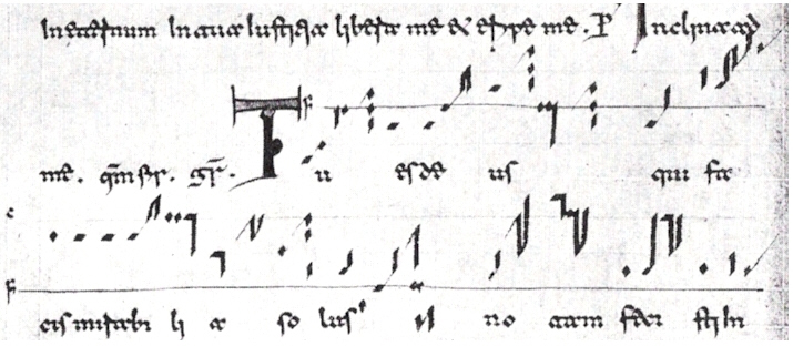 Gradual 'Tu es Deus' in Benevent notation (fragment of Ms. of 12th century)